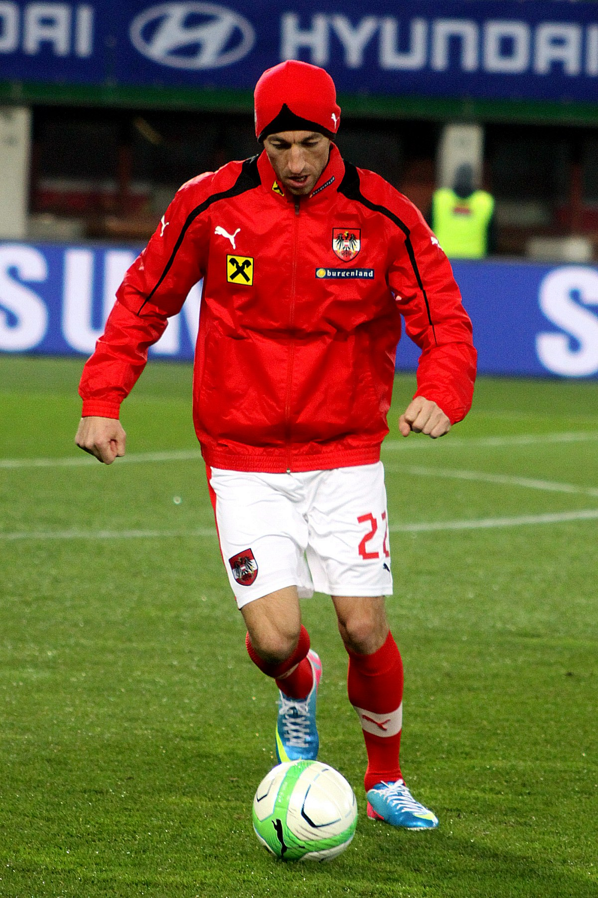 2014 FIFA World Cup qualification (UEFA), Group C: Austria national football team vs. Faroe Islands national football team 6:0 in the Ernst-Happel-Stadion in Vienna at 2013-03-22. – The photo shows Manuel Ortlechner (Austria).